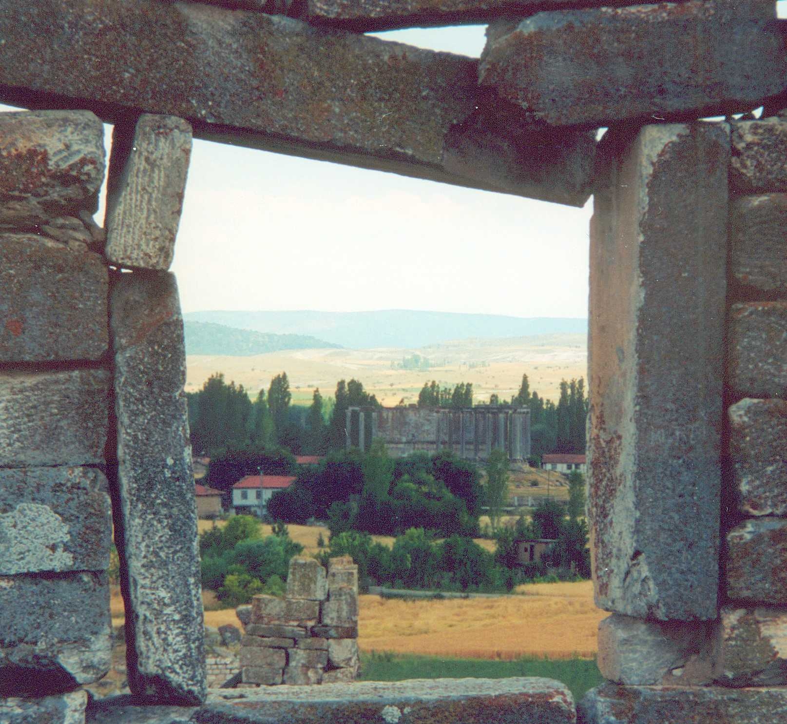 Zeus temple of Aizanoi (Turkey) viewed from the nearby amphitheatre